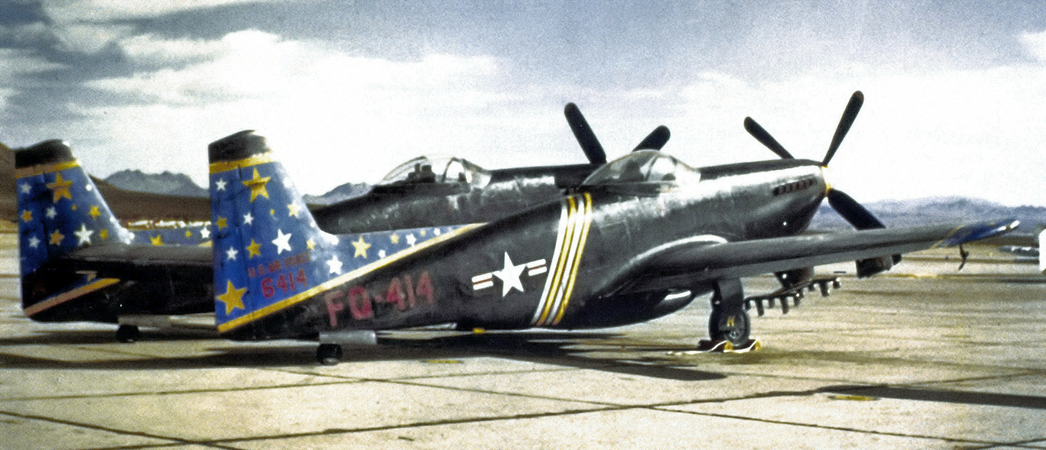 North American F-82F Twin Mustang 46-414, 52d Fighter Group (All Weather), Mitchel AFB, New York at the 1950 World Wide gunnery meet, Nellis AFB, Nevada on 26 March 1950. Marked as Group Commander's aircraft, flown by Colonel William Cellini.